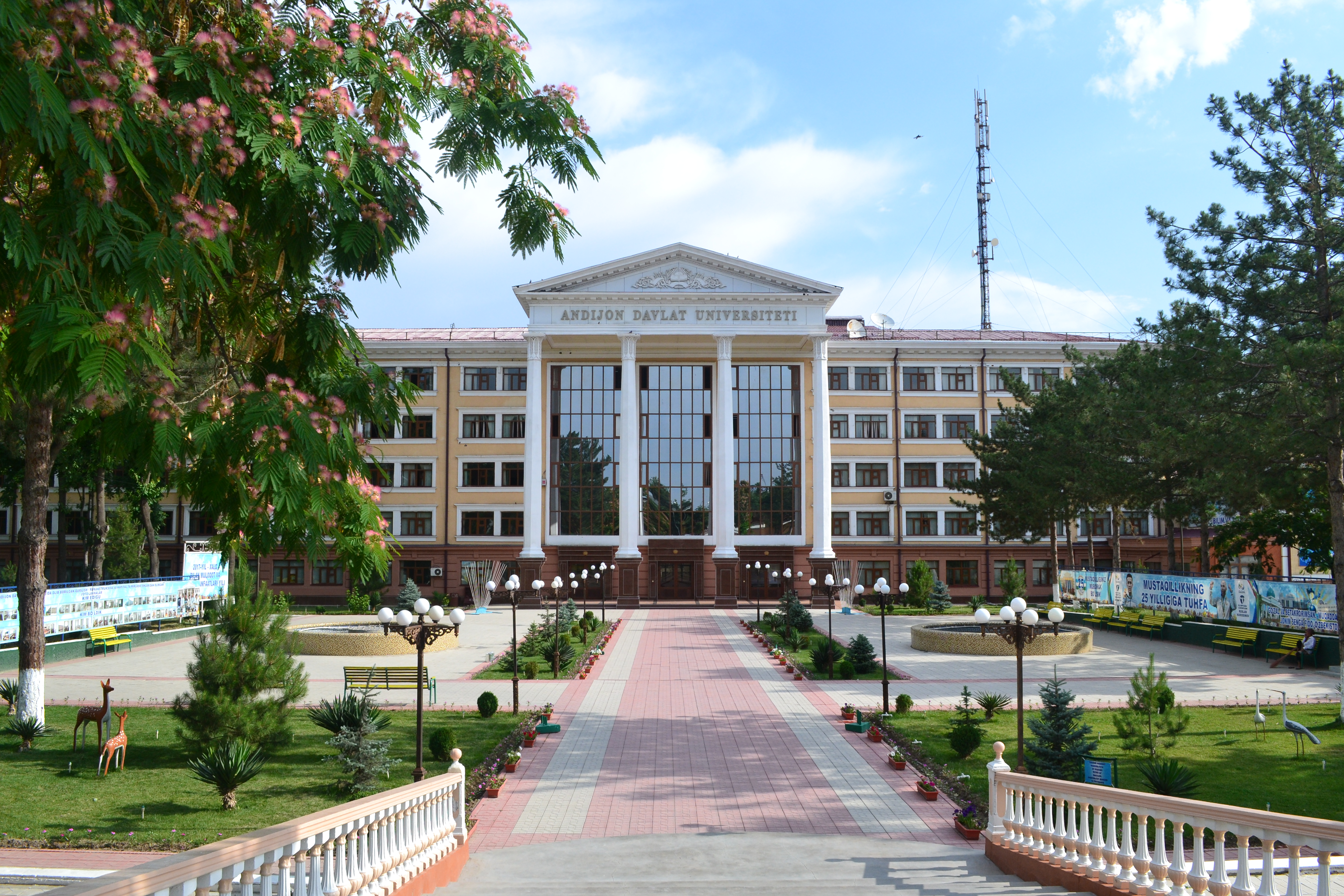 ADU FOTO